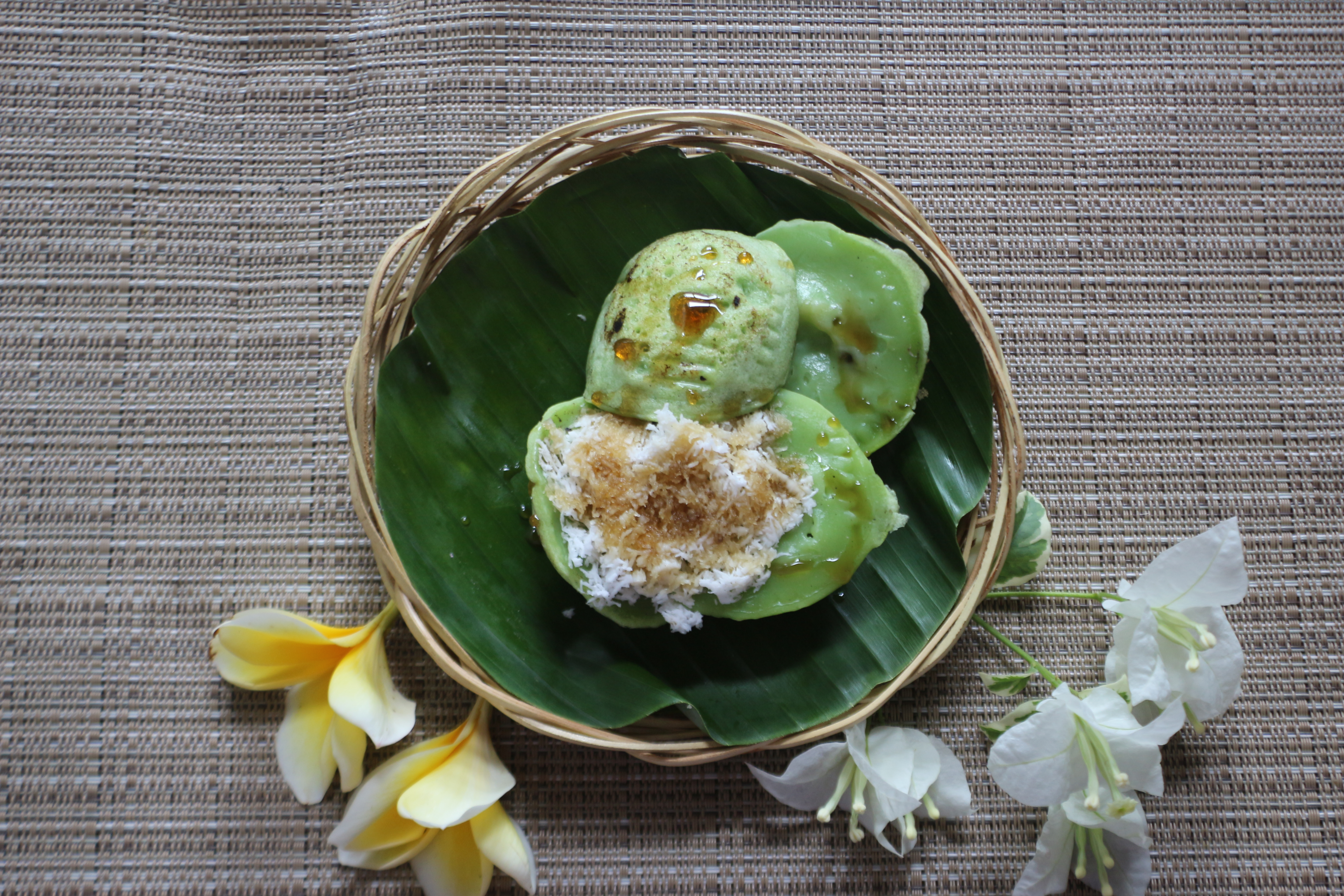 Laklak is traditional balinese snack food